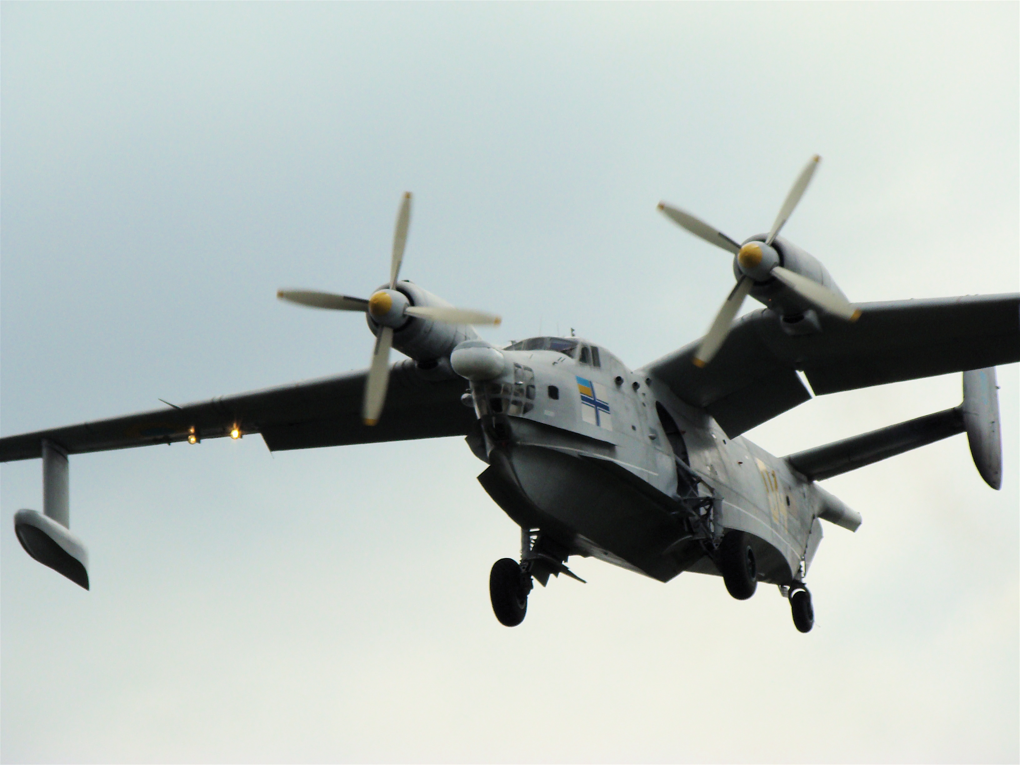 Be-12 of Ukrainian Naval Aviation.